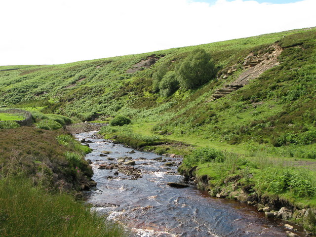 Quickcleugh Burn near Heatheryburn Farm (2) Looking west from the bridge below the farm.